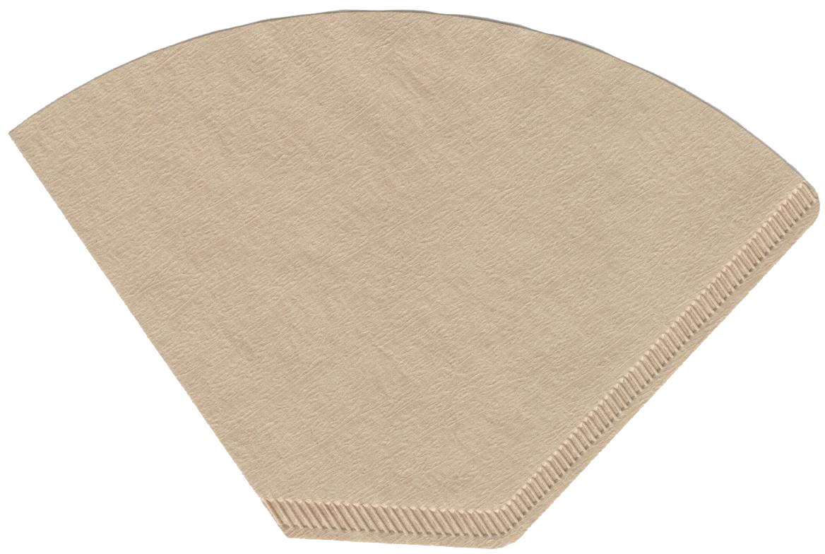 directly scanned filterpaper